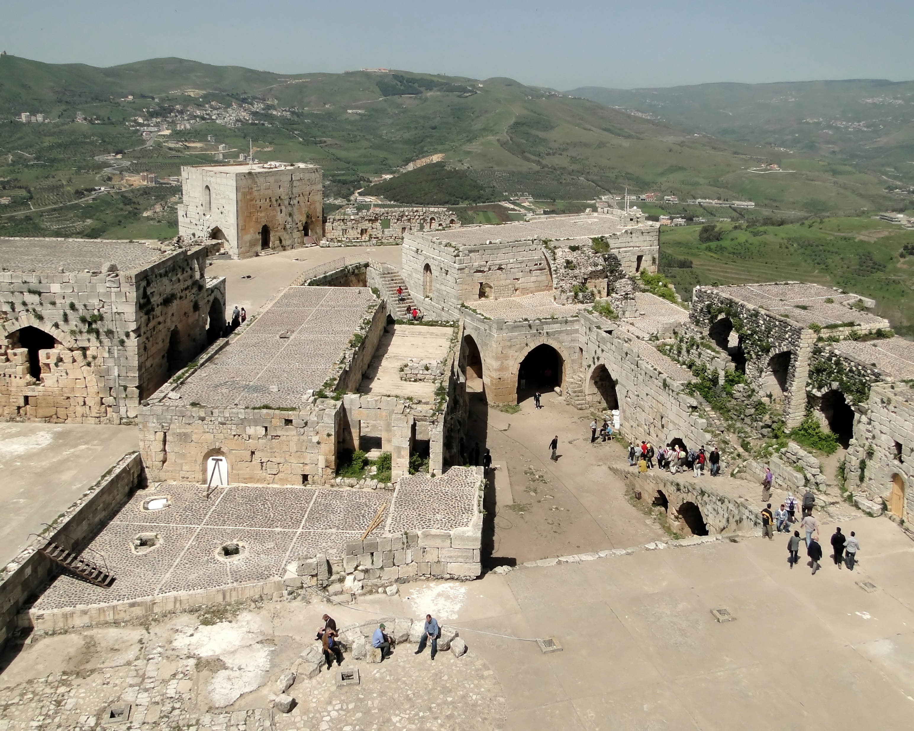 Interior and upper courts of Krak des Chevaliers, Syria